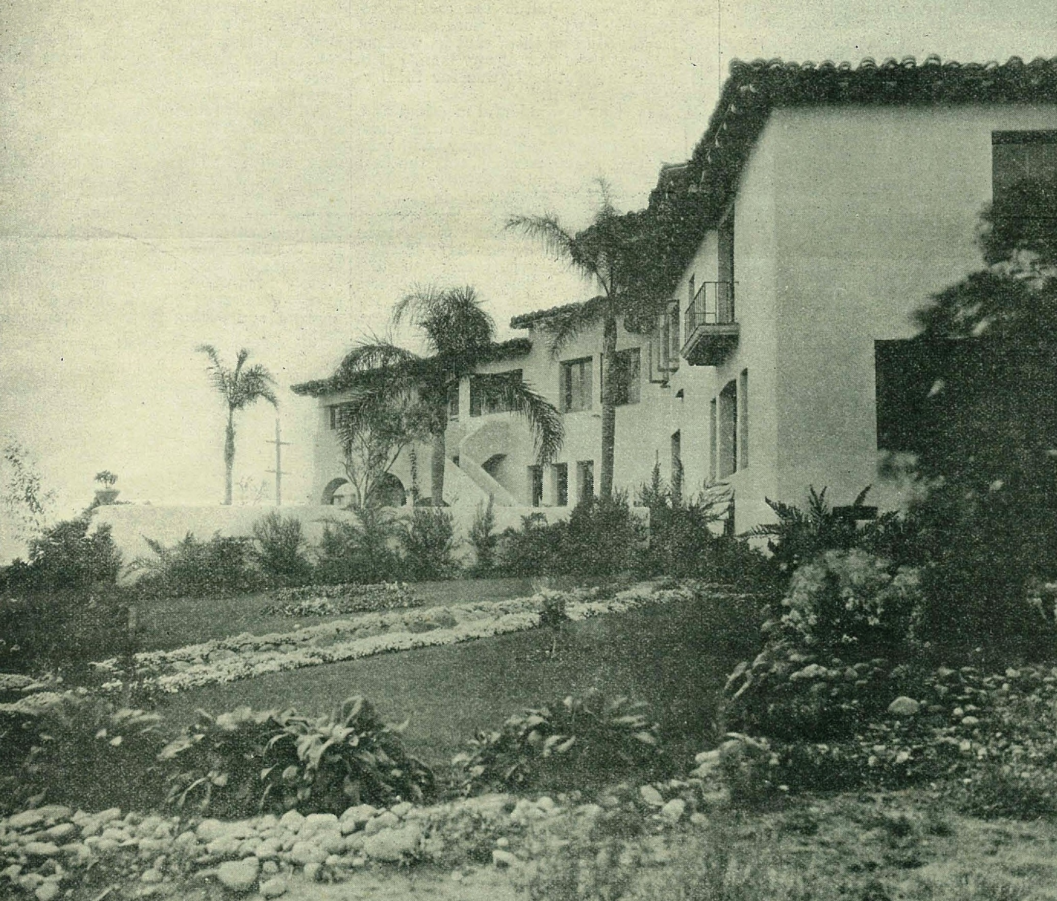 Picture and caption of Beth Sarim from the Watchtower publication The Messenger (1931). The house was built in San Diego, California in expectation of the resurrection of various Old Testament prophets and was used by Joseph F. Rutherford, 2nd President of the Watchtower Society (Jehovah's Witnesses).